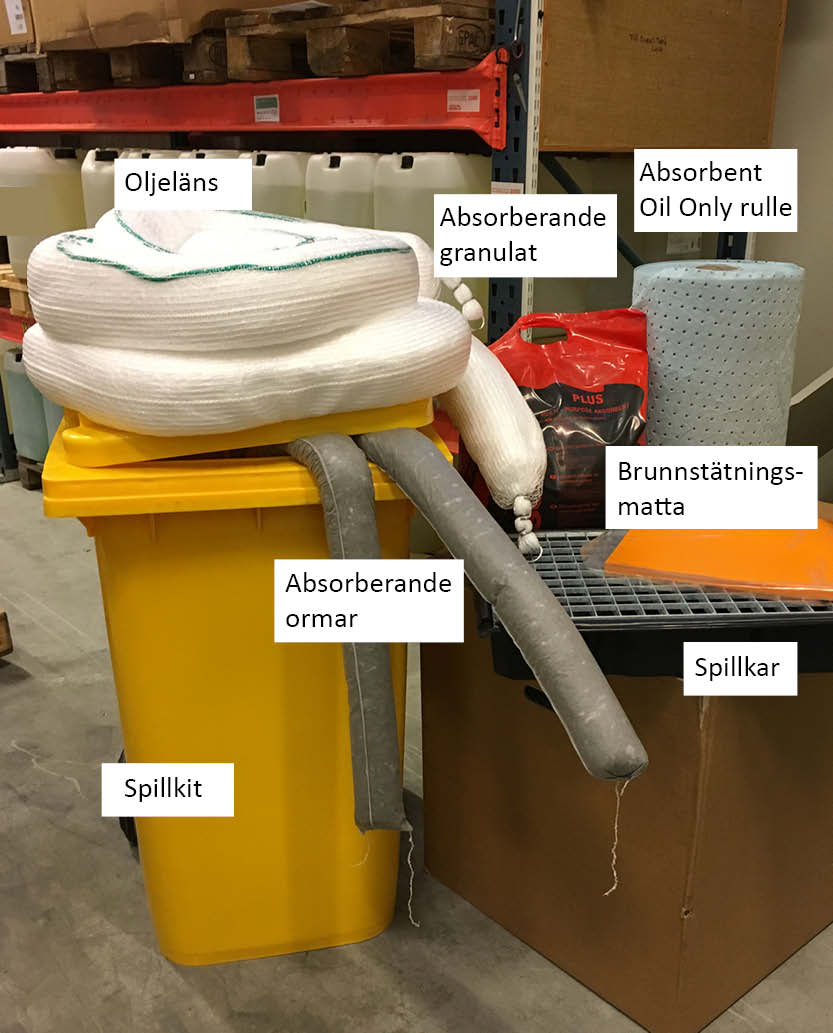 spill management